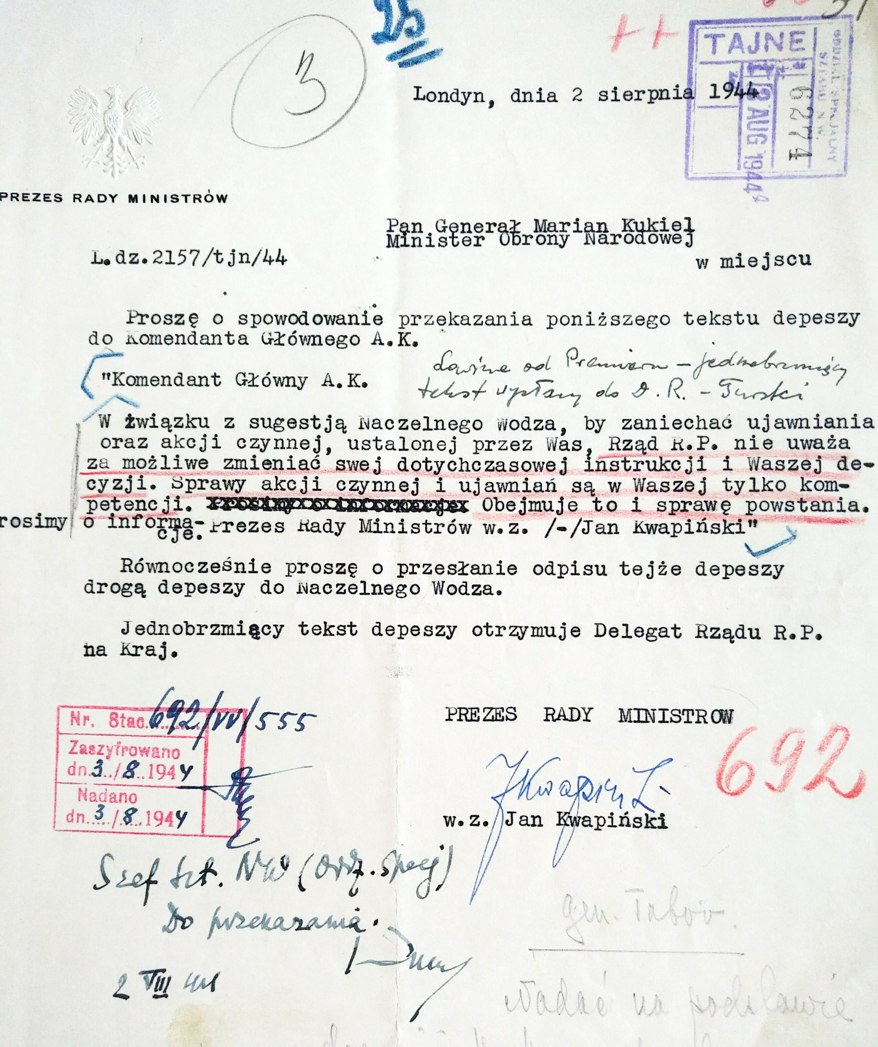 Jan Kwapiński (Deputy Prime Minister of Polish Government in Exile) dispatch to Gen Tadeusz Bór-Komorowski (commander of the Home Army (Armia Krajowa - AK)) from the 2nd of August 1944